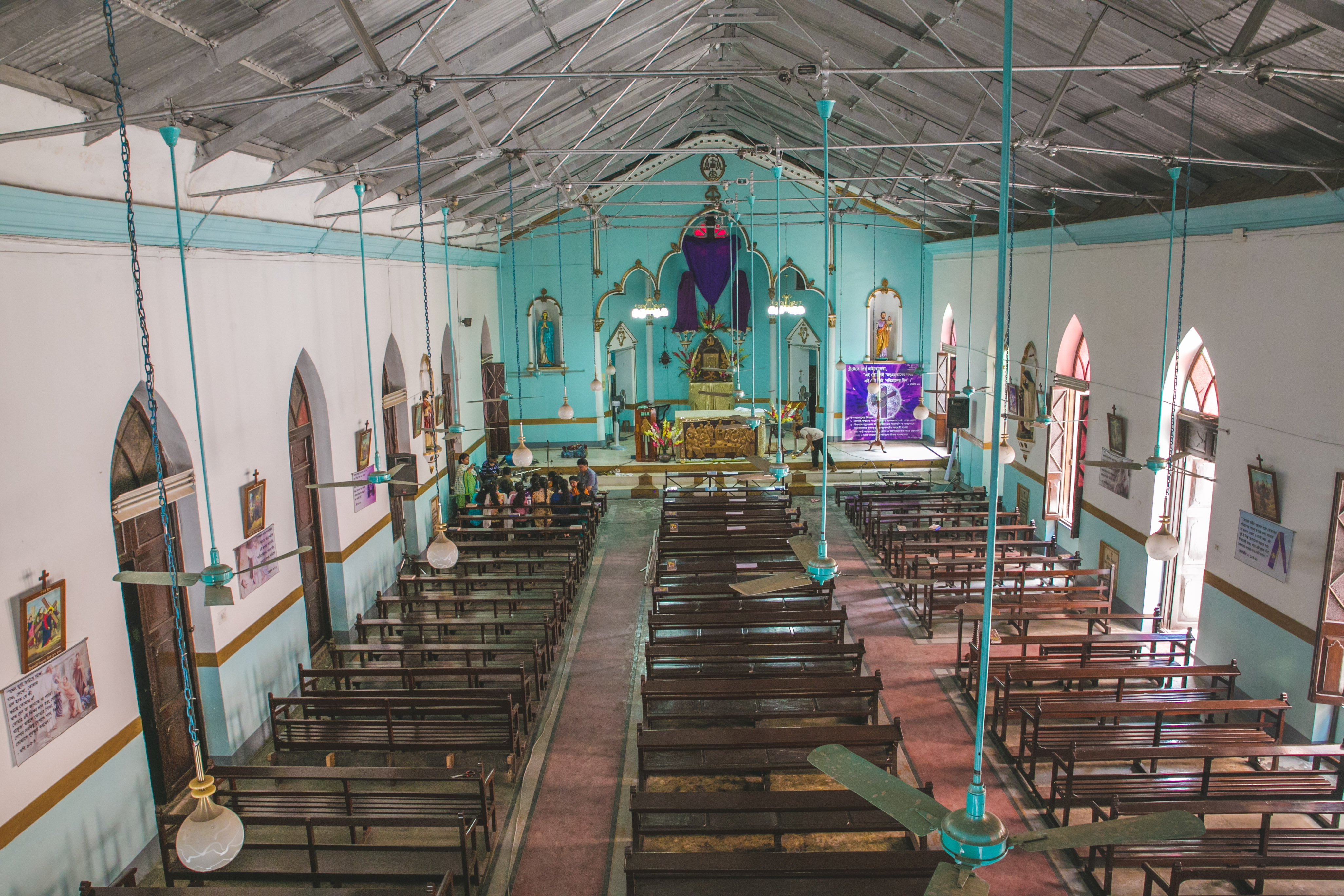 St Gregory's School, Dhaka